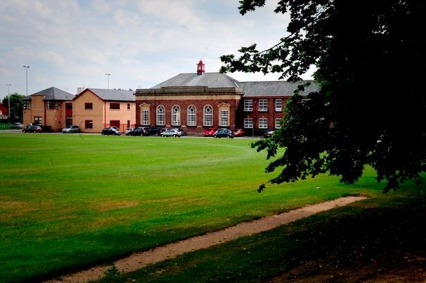 Audenshaw Grammer School